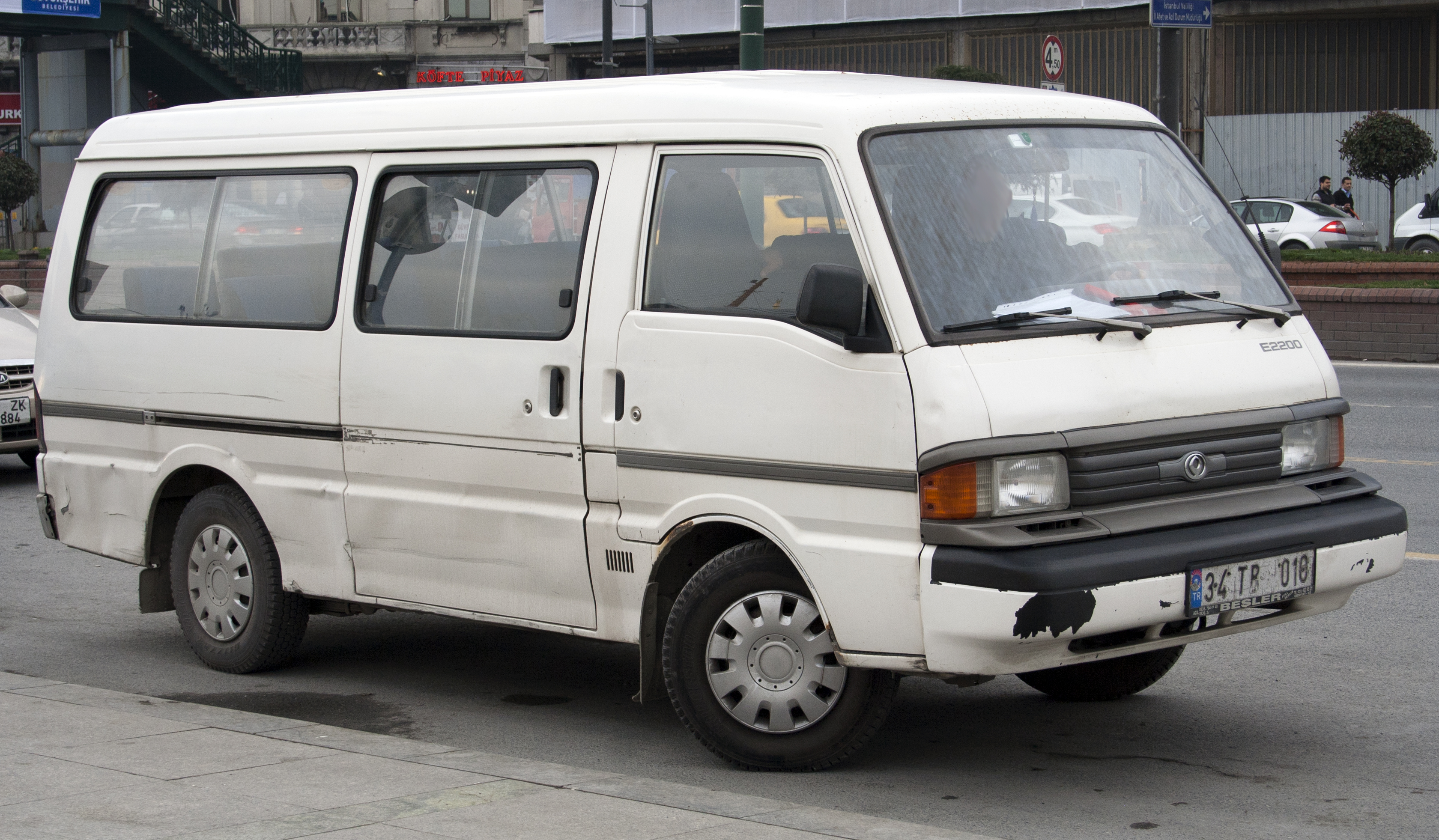 Mazda E2200 LWB minibus at the ferry terminal in Sirkeci.